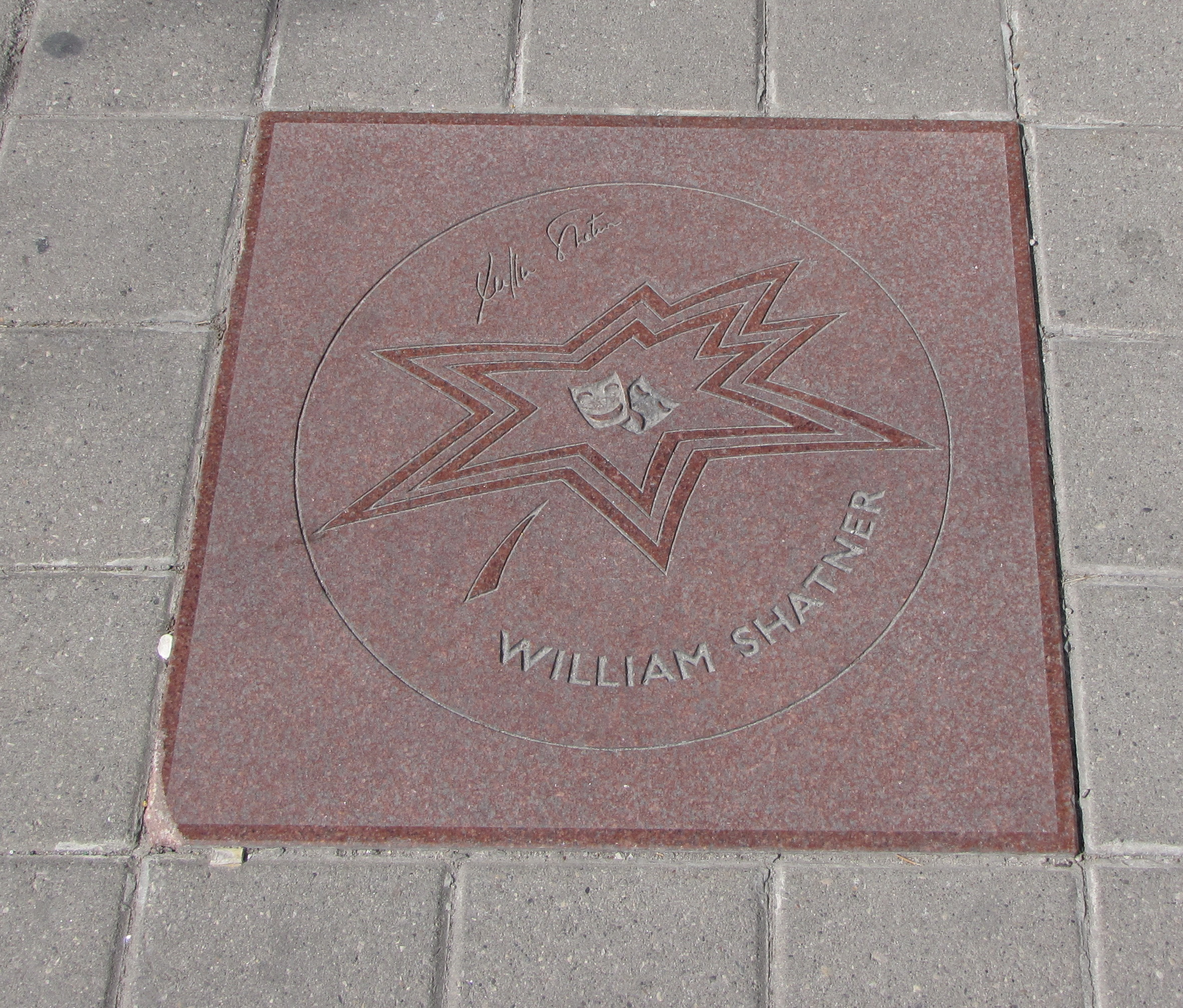 William Shatner's star on Canada's Walk of Fame